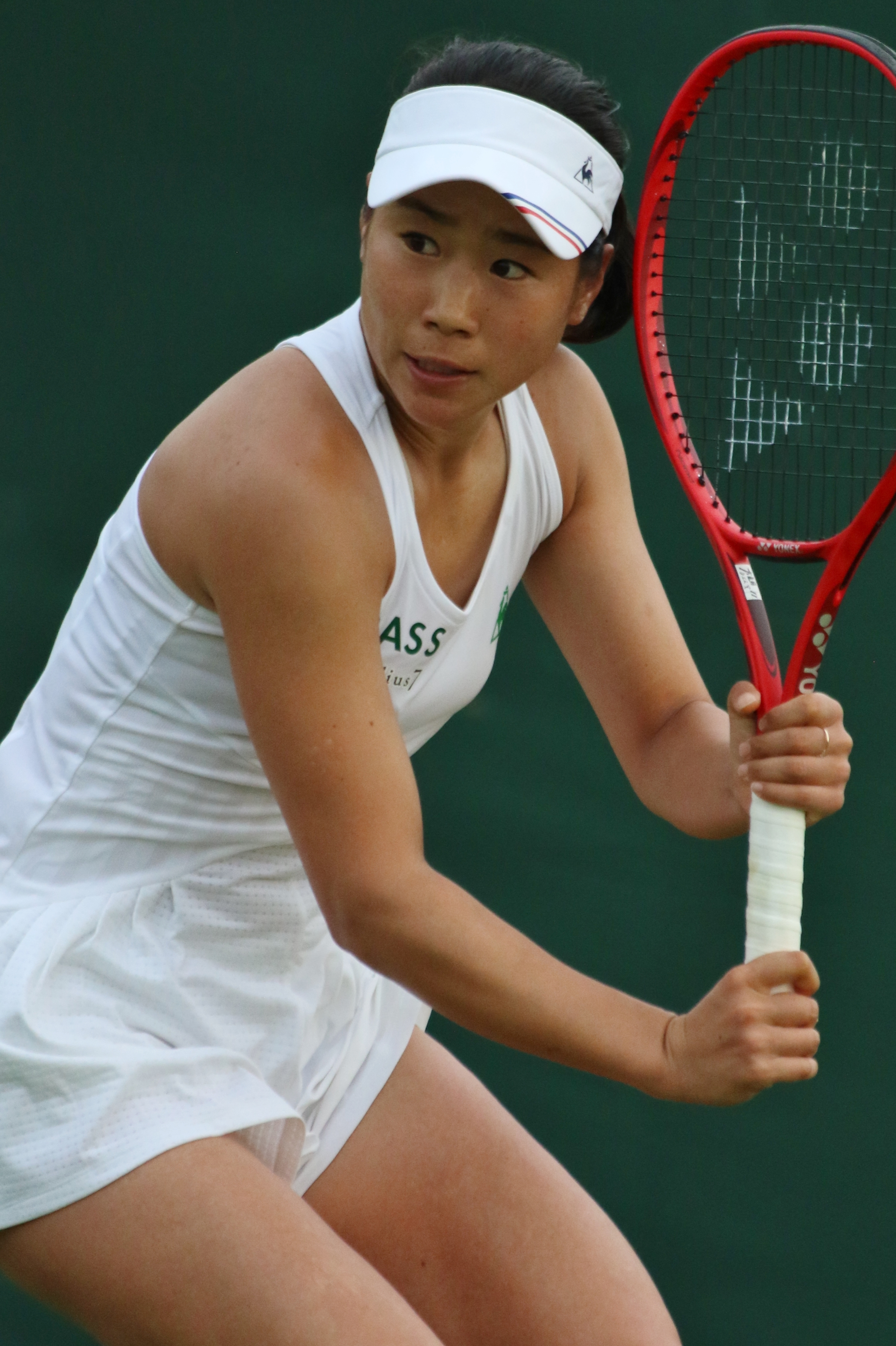 2019 Wimbledon Qualifying Tournament.